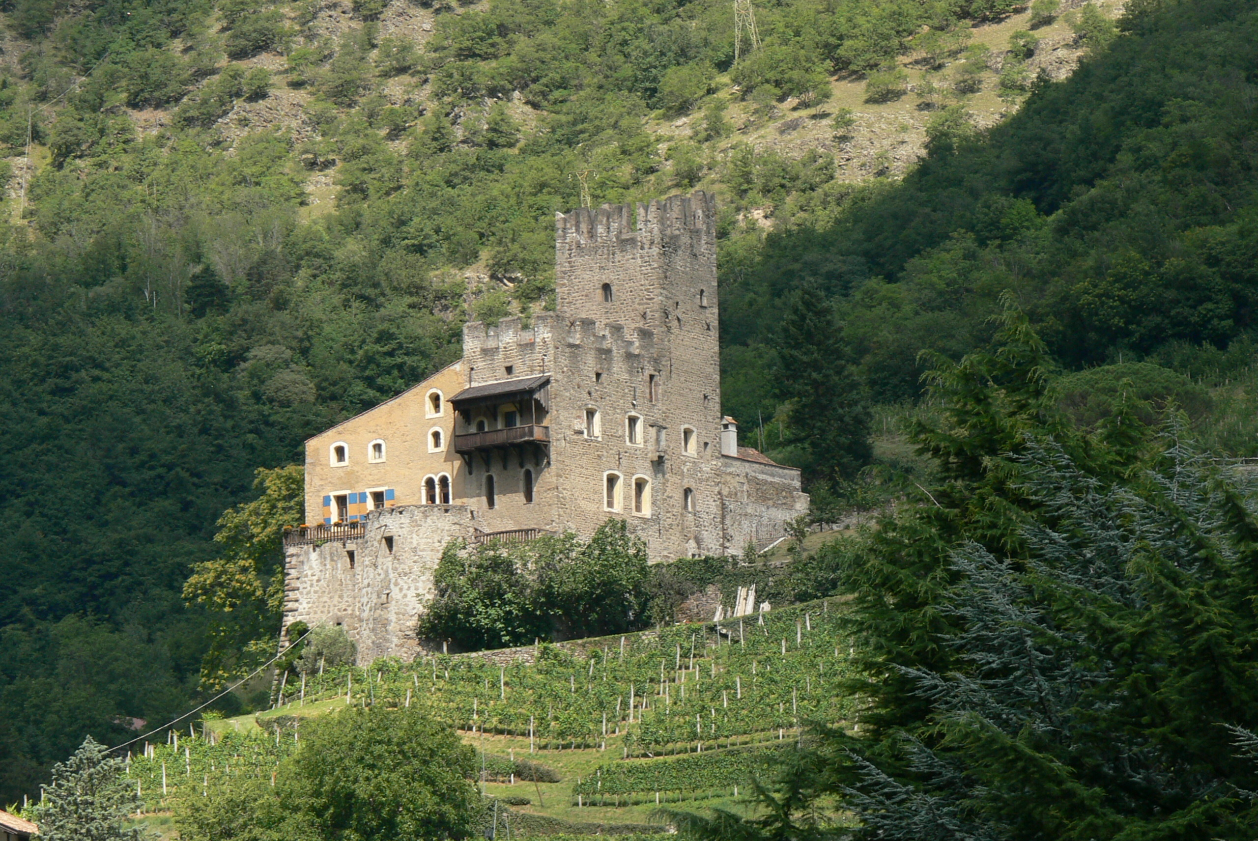 Naturns ( South Tyrol ). Hochnaturns castle.